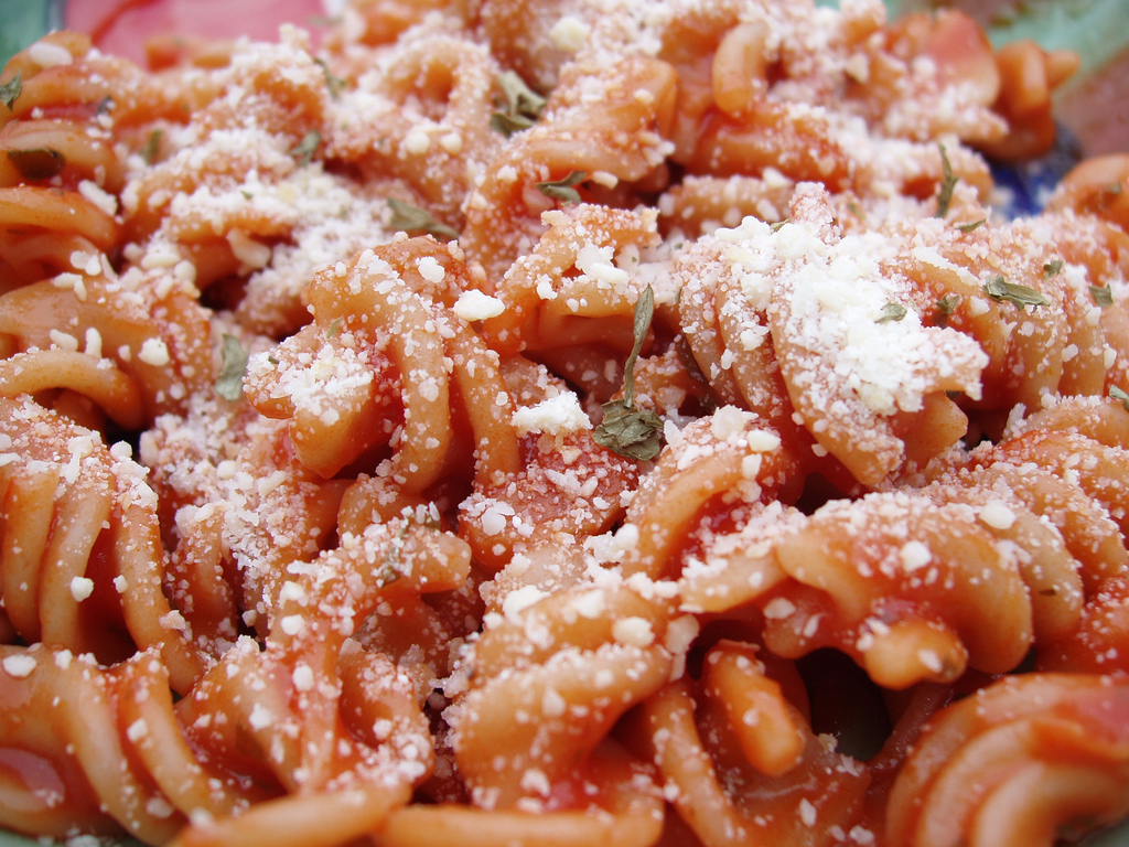 Rotini with tomato sauce, grated cheese (Parmesan and Romano), and dried parsley. Photo taken in Washington State, United States. The rotini is Lundberg brand organic brown rice rotini.